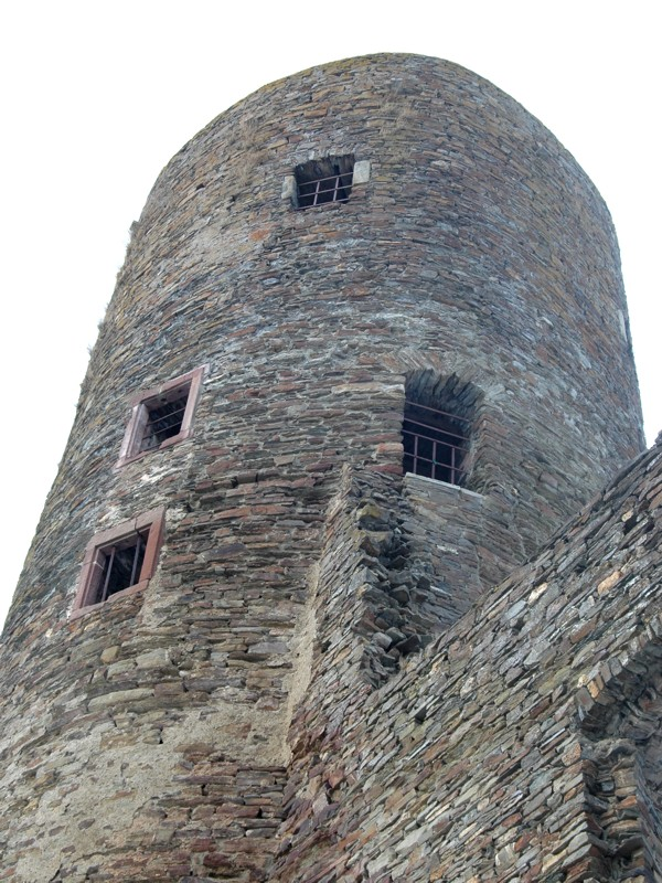 Donjon of Castle Reuland in Belgium